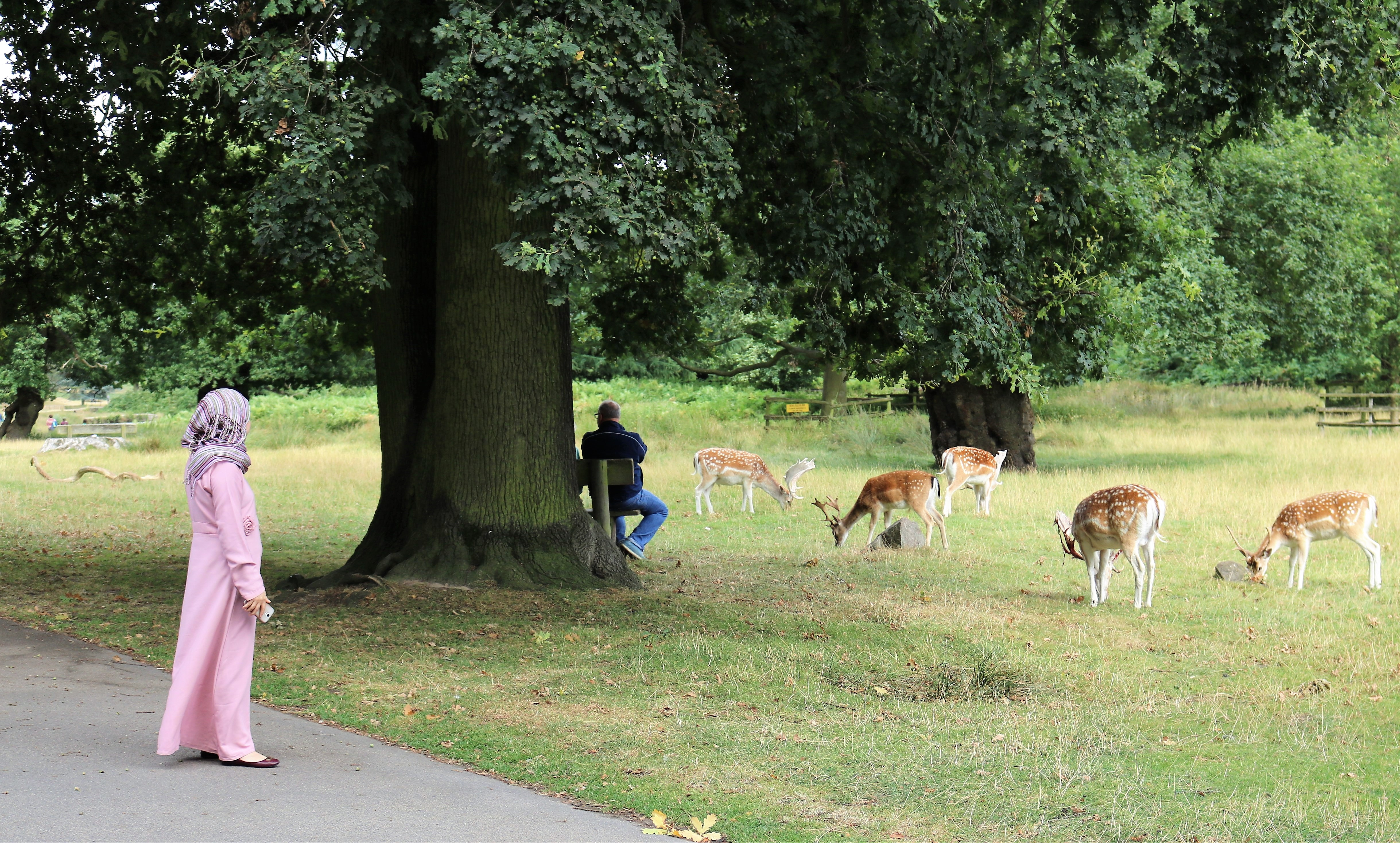 Markfield Institute student visiting Bradgate Park